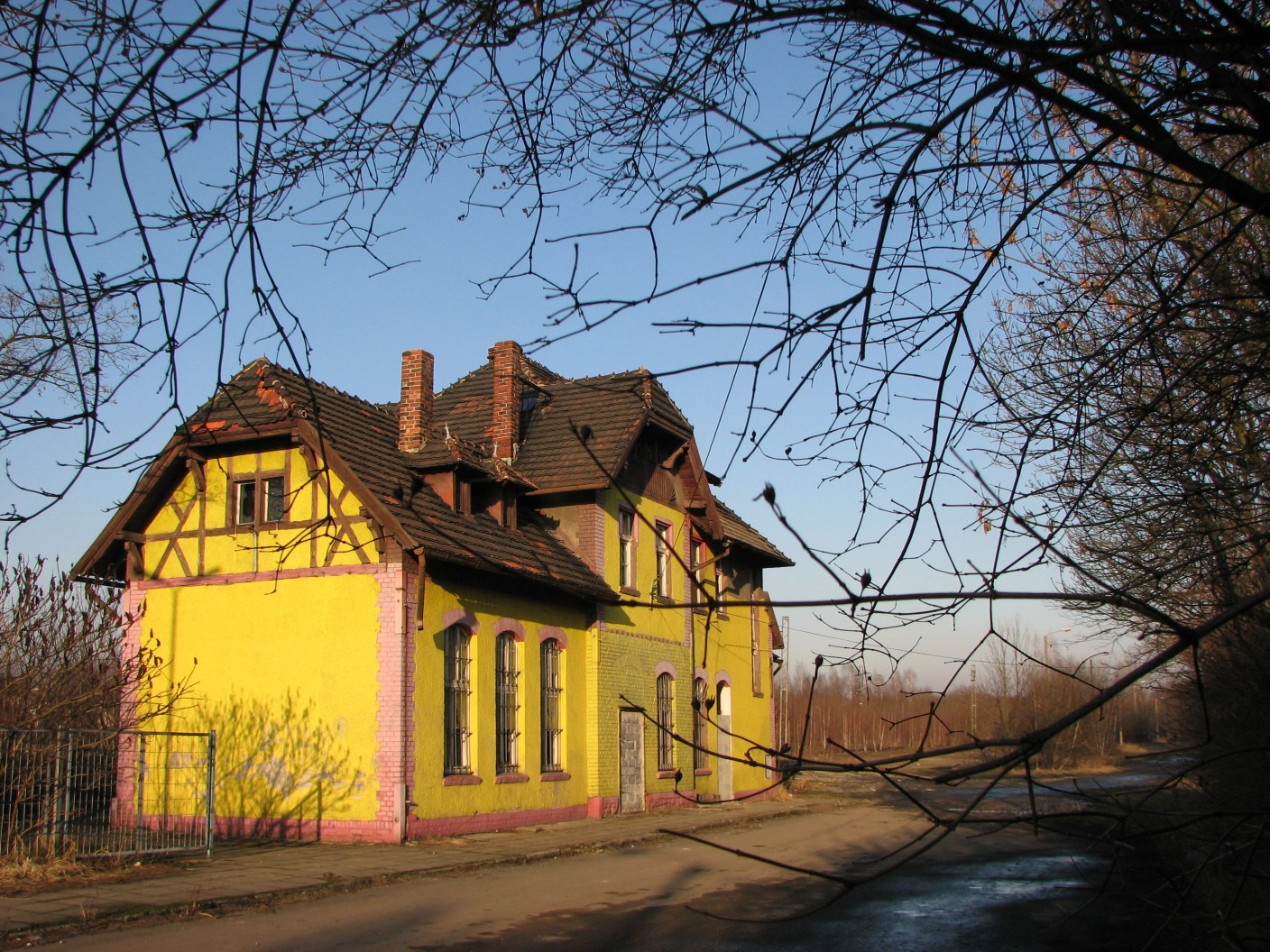 Jastrzębie-Zdrój PKP, railway station